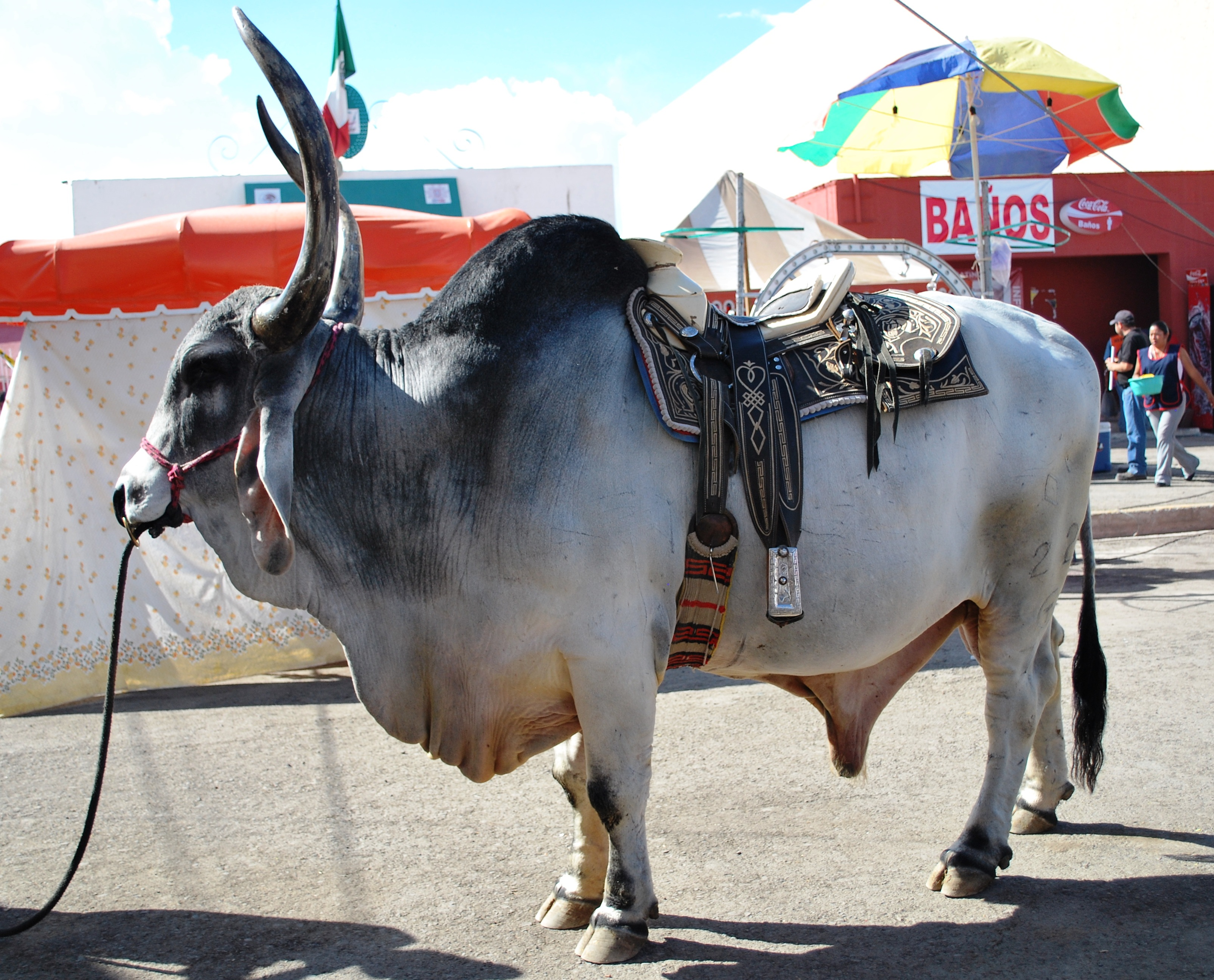 Brahma bull at the Feria de Hidalgo in Pachuca, Hidalgo